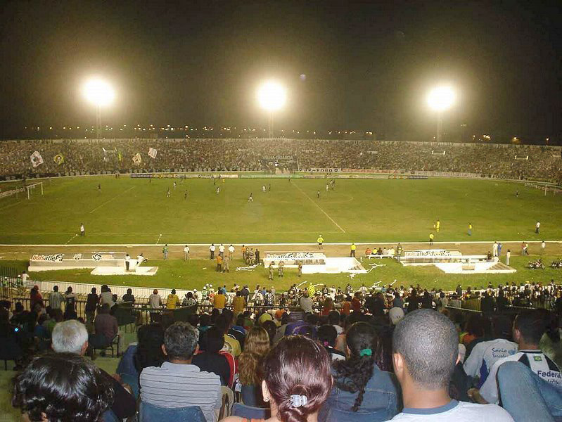 Decisive departure from the times of best campaigns Paraibano Football Championship in 2006. Thirteen F.C. F.C. 2X1 Botafogo - 24/05/2006